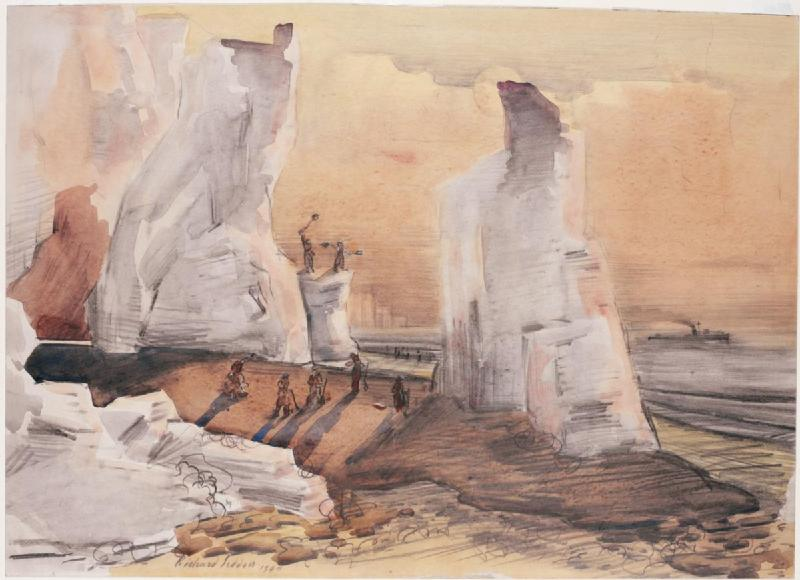 Signalling HMS Bulldog from the Shore, near Veulette - 10th June 1940 image: a view of some British soldiers signaling from a beach near Veulettes-sur-Mer to HMS Bulldog. The soldiers stand on an unusual white rock formation, the sunset casting long shadows across the beach.